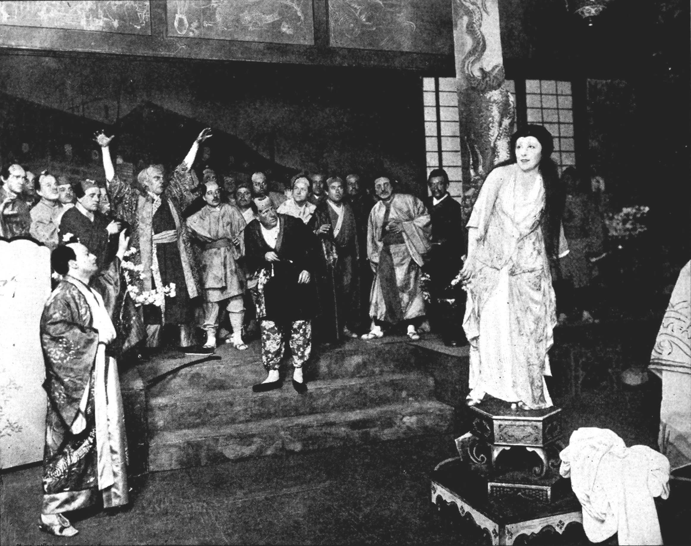 Mascagni - Iris - Iris' father curses her Title: The Victrola book of the opera : stories of one hundred and twenty operas with seven-hundred illustrations and descriptions of twelve-hundred Victor opera records Year: 1917 (1910s) Authors: Victor Talking Machine Company Rous, Samuel Holland Subjects: Operas Publisher: Camden, N.J. : Victor Talking Machine Co. Text Appearing Before Image: (In German))egurola (/n //a/ion)L„iniBy Giulio Rossi, Bassl*33404 12-inch, $1.25 10-inch, 1.00 45051 10-inch, 1.00 10-inch, .75 * Double-Faced Record—See above list. 215 Text Appearing After Image: COPYT WHITE IRIS FATHER CURSES HER IRIS (Ee-ris) OPERA IN THREE ACTS Text by Luigi Illica ; music by Pietro Mascagni. First production, Costanzi Theatre,Rome, November 22, 1898. Revised by the composer and produced at La Scala, Milan,January, 1899. First American production, Philadelphia, October 14, 1902, during the tourof Mascagnis own company. Two days later New York heard the same organization givethe opera, but the production by the Metropolitan Opera Company did not occur until 1908,with a cast including Caruso, Eames, Scotti and Journet. Revived April 3, 1915, with Bori,Scotti and Botta. Characters ClECO, the blind man Bass IRIS, his daughter Soprano OSAKA Tenor KYOTO, a takiomati Baritone Ragpickers, Shopkeeper, Geishas, Mousme (laundry girls), Citizens,Strolling Players. In Greek mythology Iris (literally Rainbow) was the Goddess of the Rainbow, andand as such was the Messenger of Peace to all the inhabitants of the earth. Illica has named his Japanese heroine after this Gree